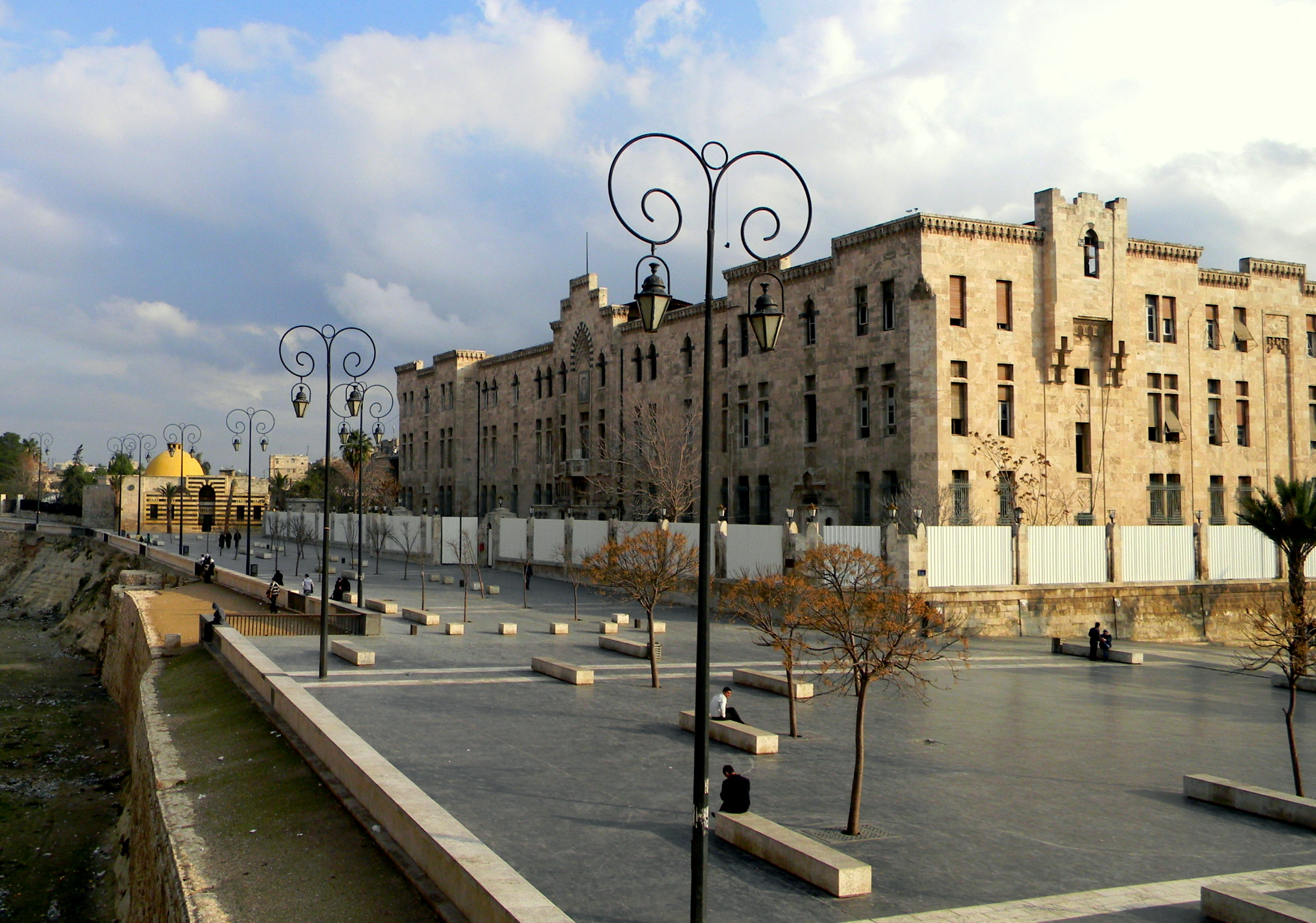 Grand Serail of Aleppo in 2011 before destruction.